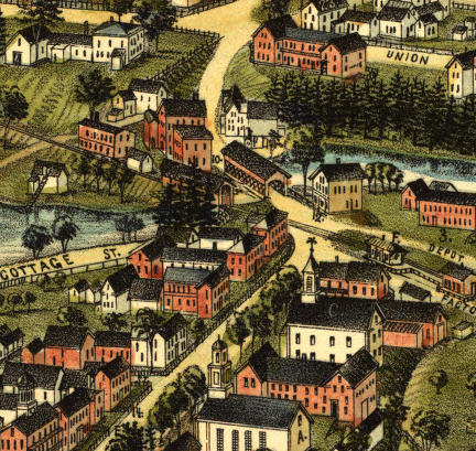 Piscataquog River & Goffstown, NH; from an 1887 panoramic map by George E Norris.